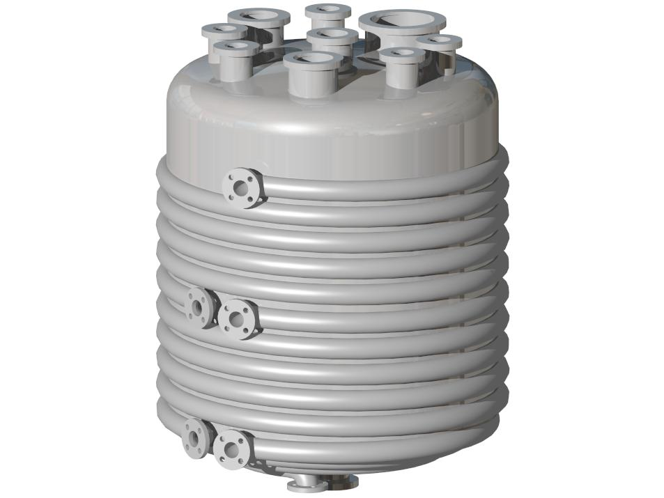 RSA